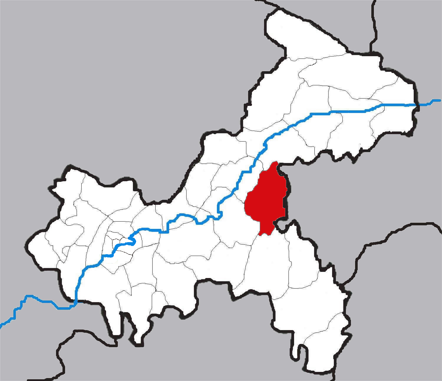 Administration maps of Chongqing, China